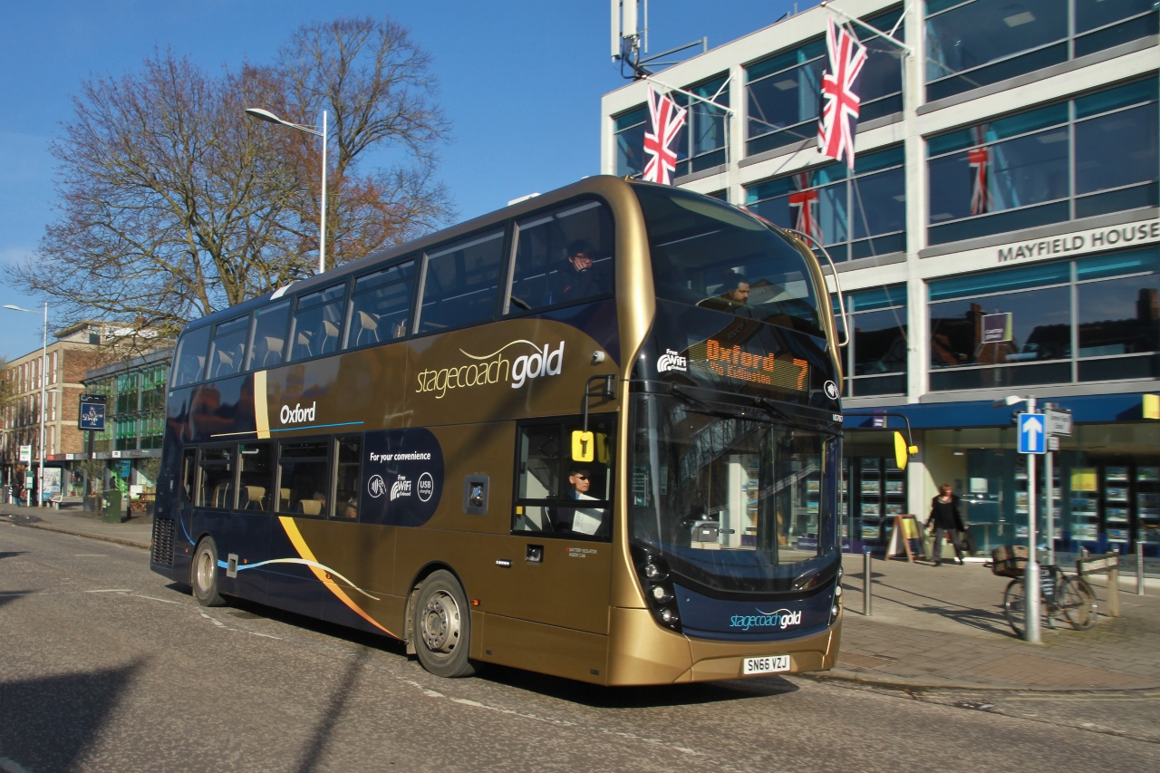 A Stagecoach in Oxfordshire bus on route 7 at Summertown Parade, Banbury Road, Oxford. The bus is an Alexander Dennis Enviro400, registration mark SN66 VZJ, fleet number 10787, in Stagecoach Gold livery.